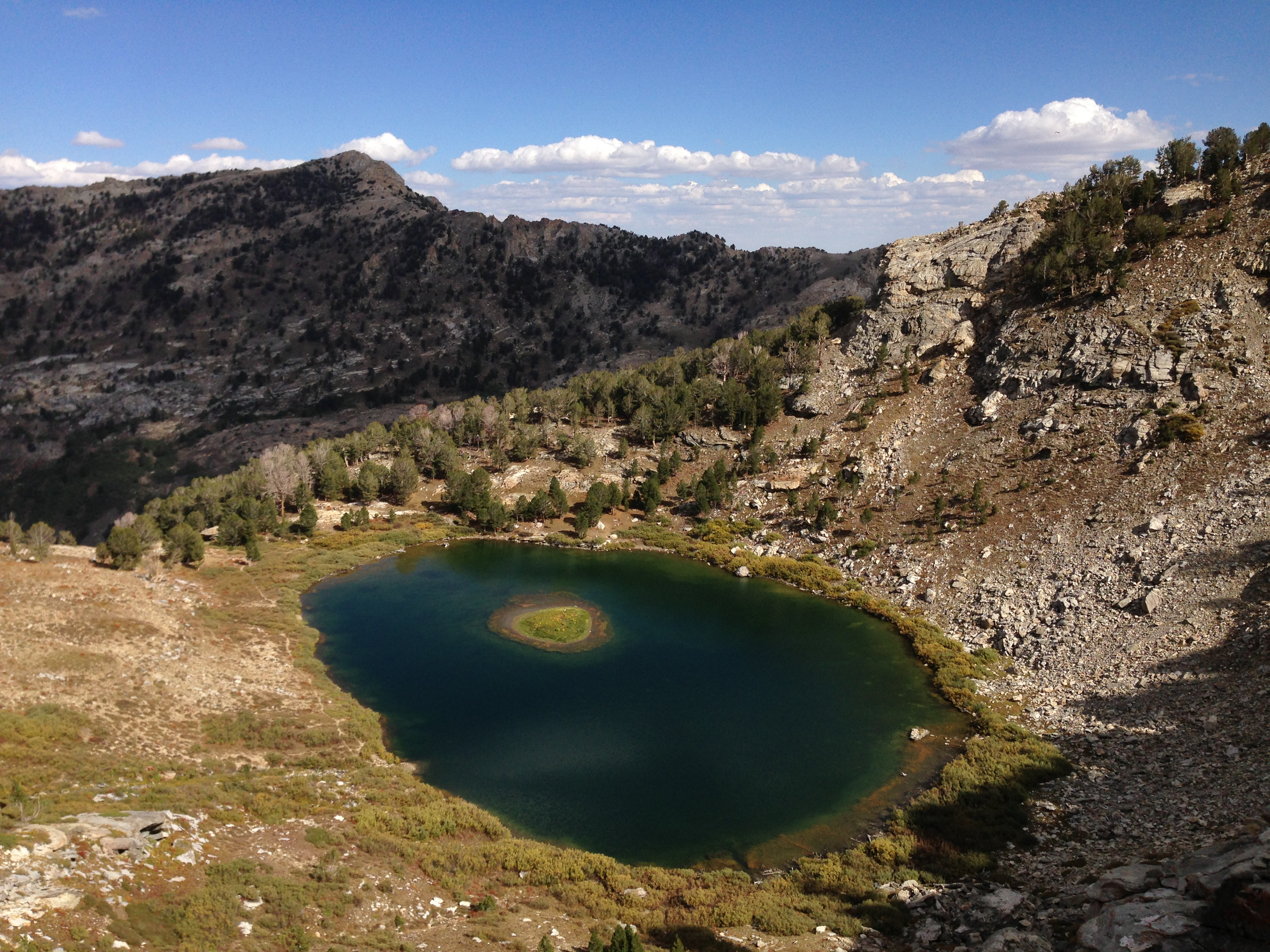 View east-southeast across Island Lake from the ledge to the west on the afternoon of September 16th 2013